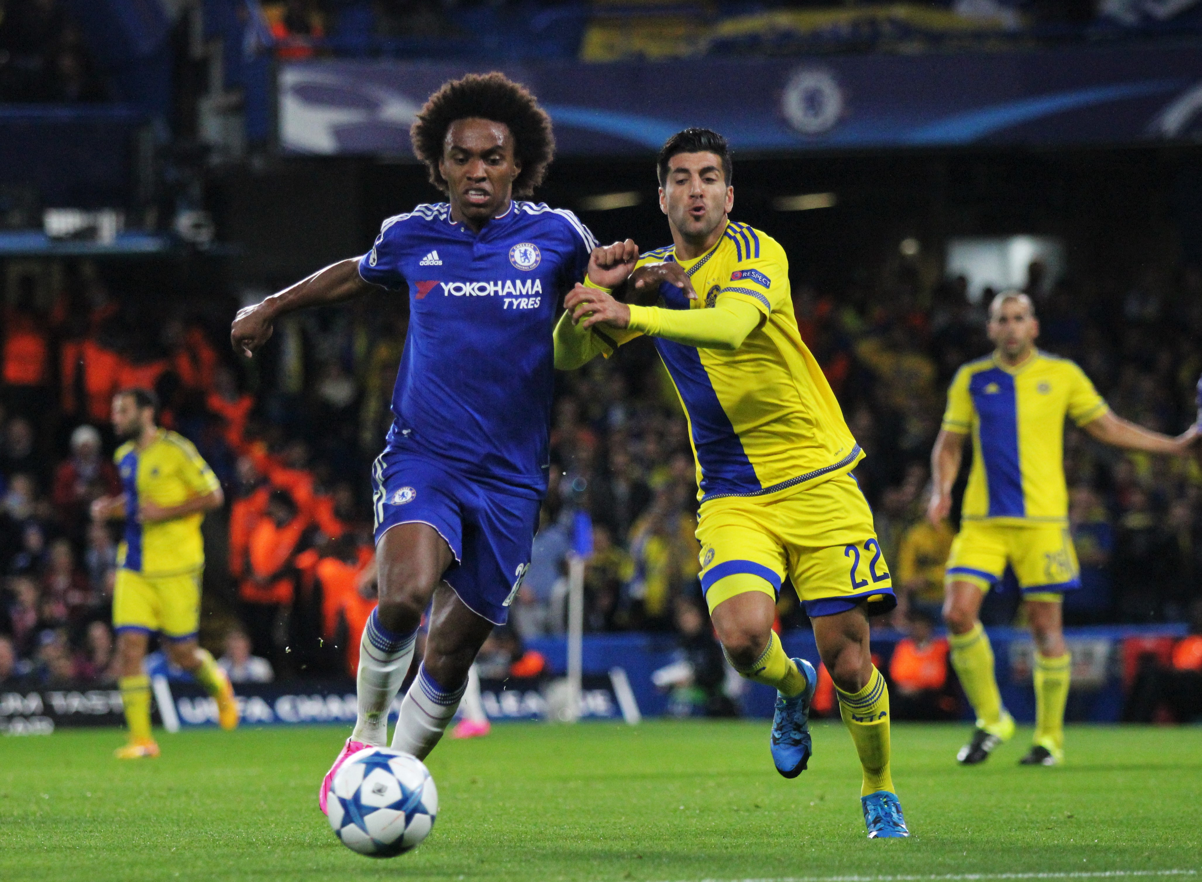 Willian of Chelsea holds off Avraham Rikan of Maccabi Tel-Aviv during the Champions League group stage game.